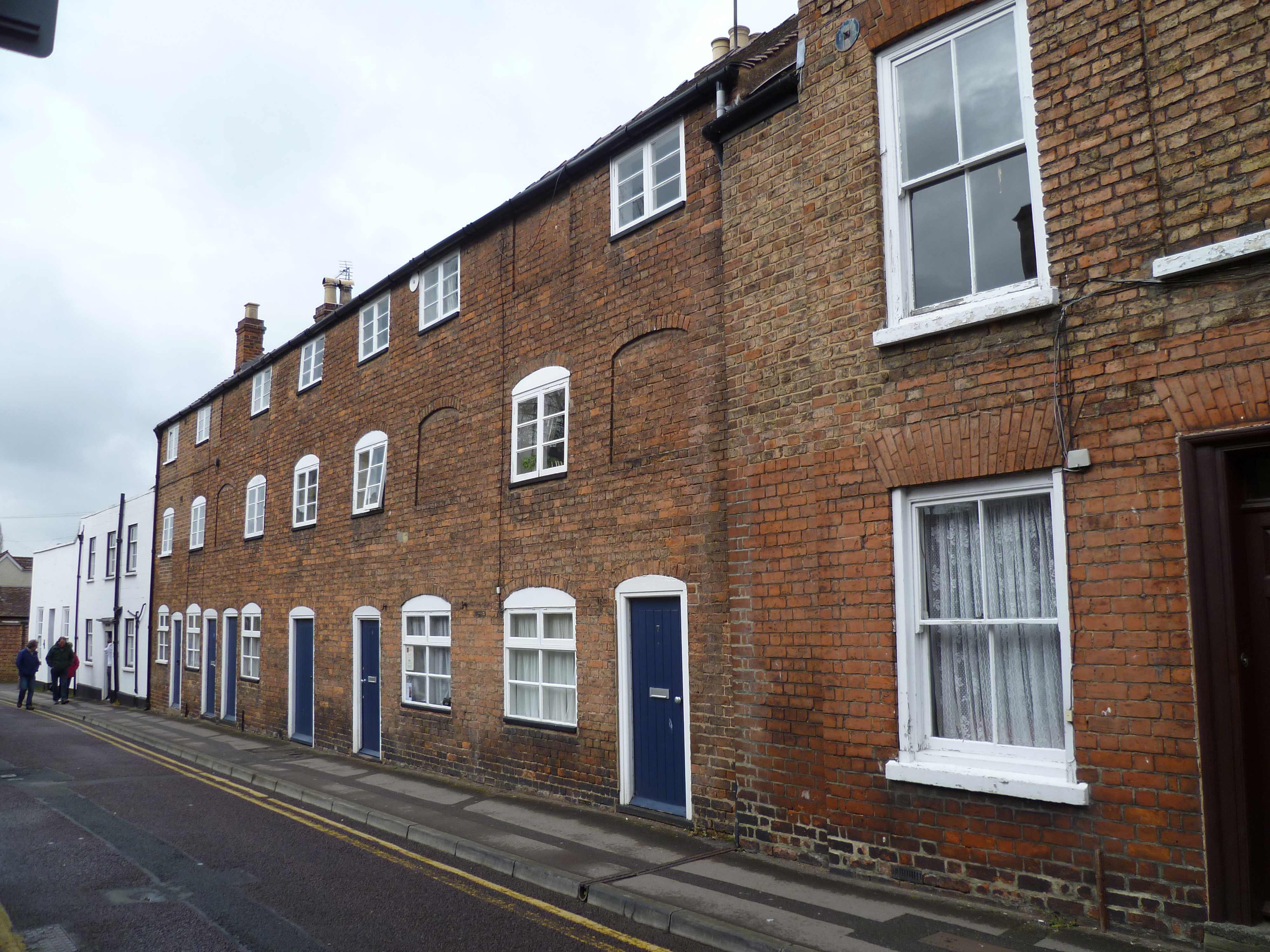 Gloucester